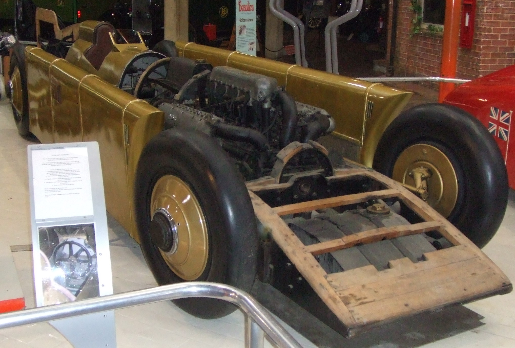 Sir Alan Cobham's Henry Segrave's "Golden Arrow" at the Beaulieu Motor Museum, 10/06.